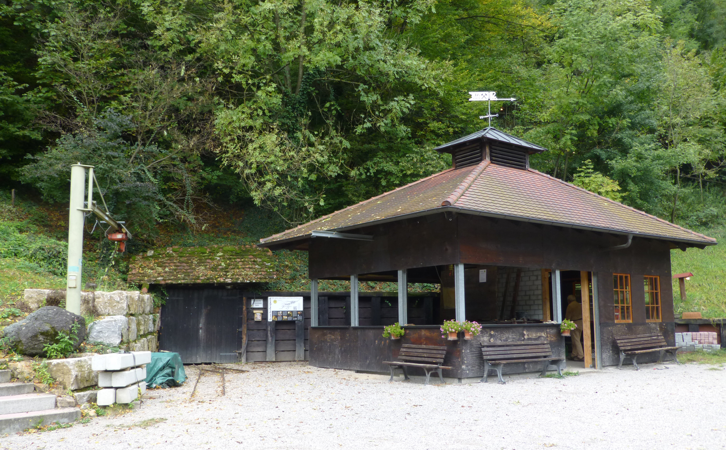 Entry to the silver mine Anna-Elisabeth, Schriesheim, Baden.